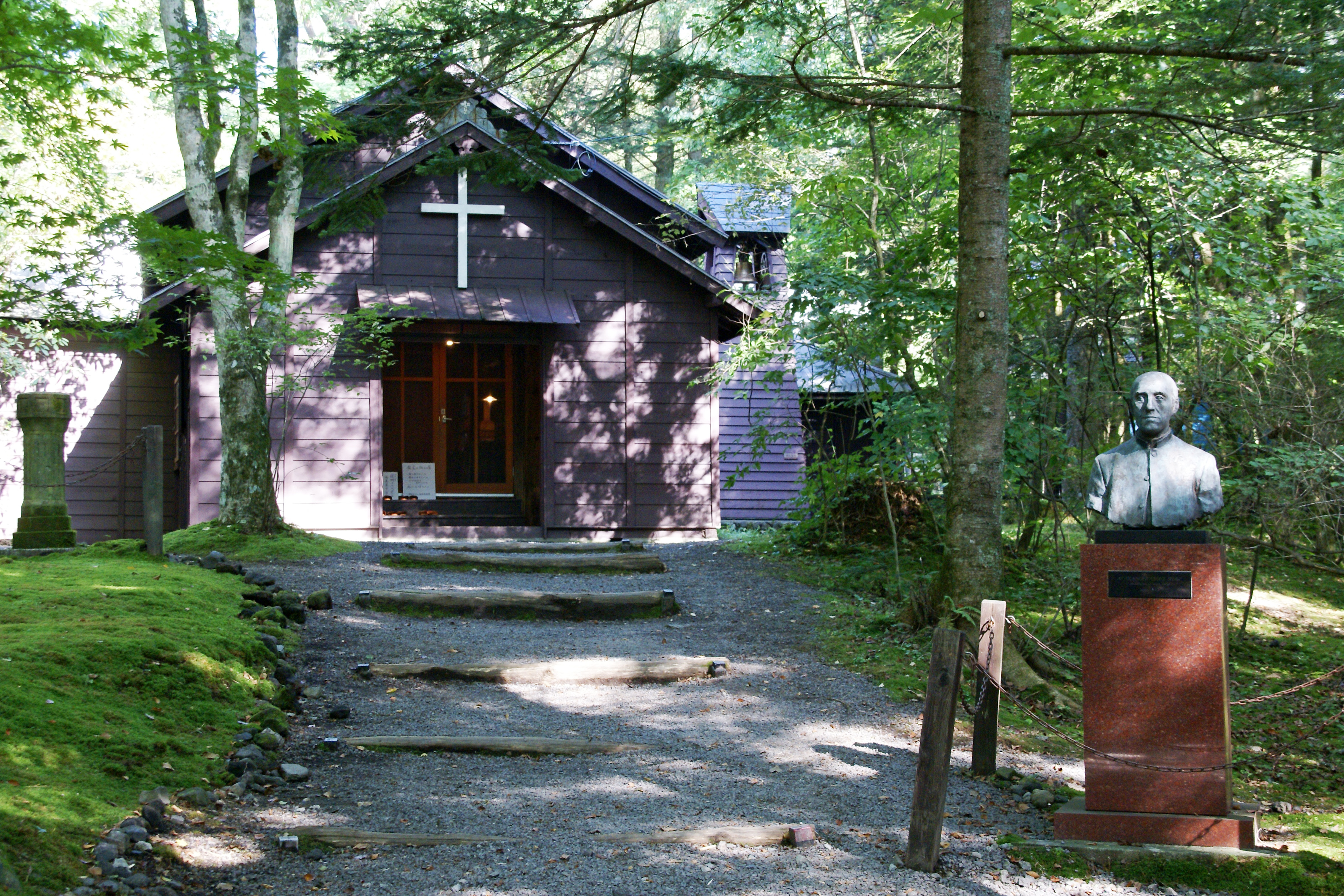 Shaw memorial chapel in Karuizawa, Nagano prefecture, Japan